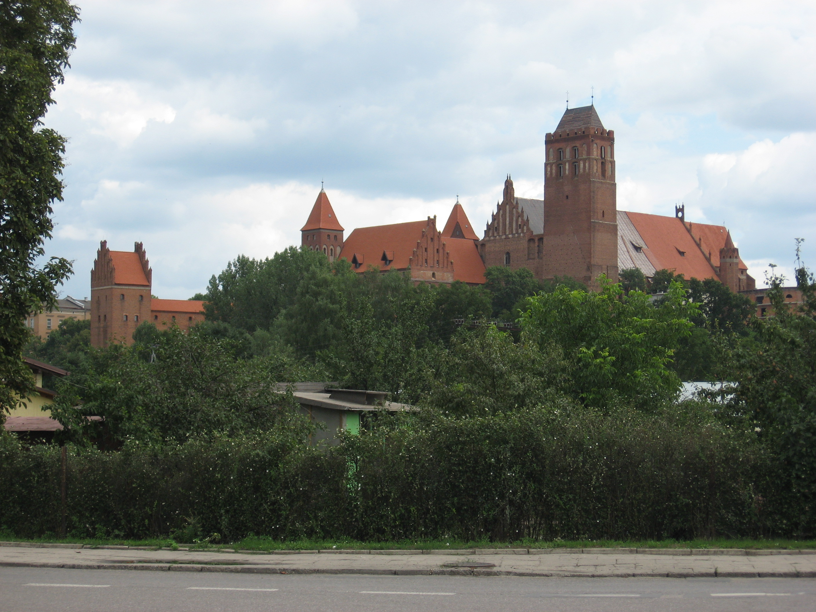 Kwidzy, castle and cathedral complex seen from south-west